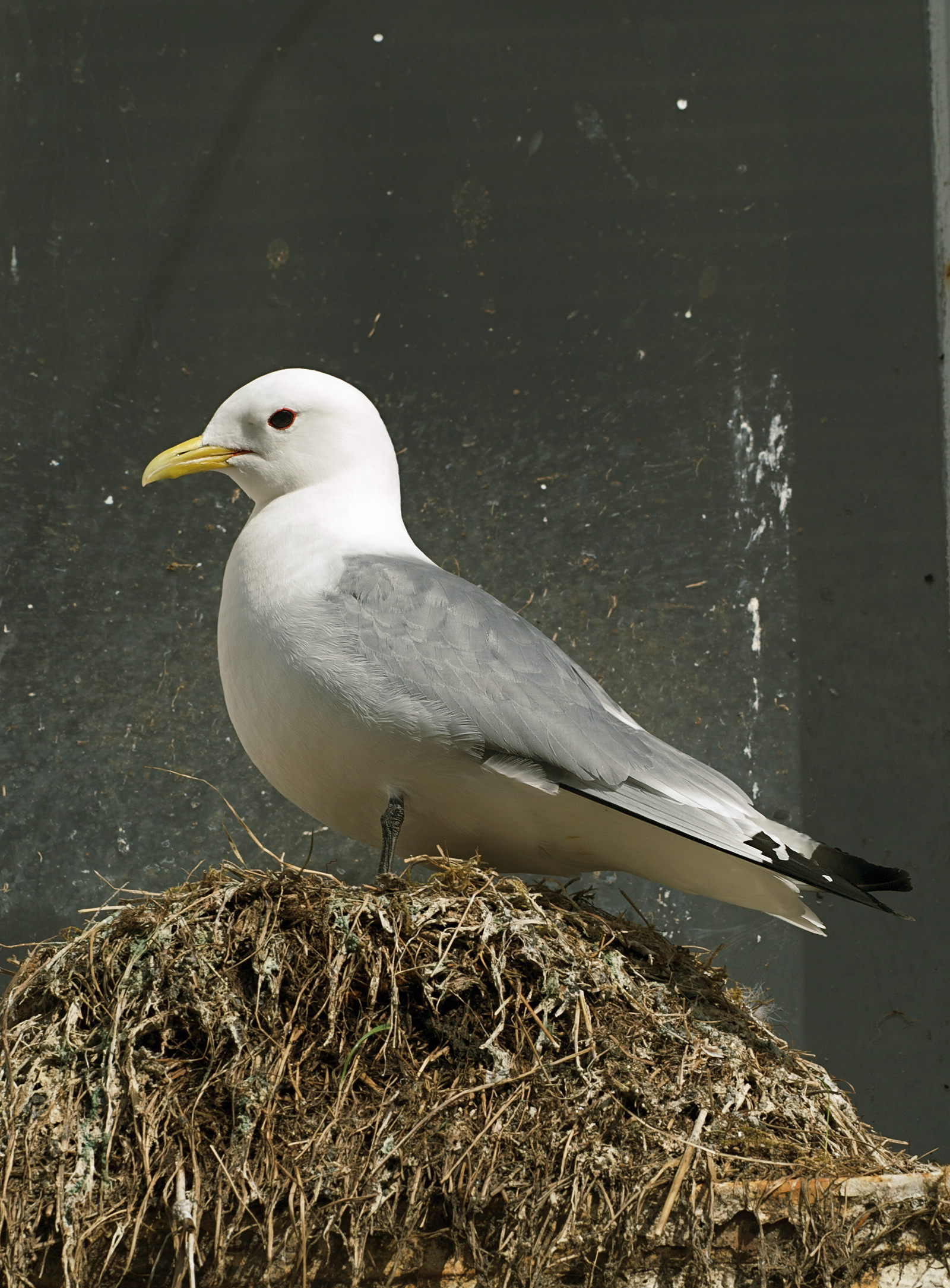 Black-legged Kittiwake (Rissa tridactyla), Å, Norway.